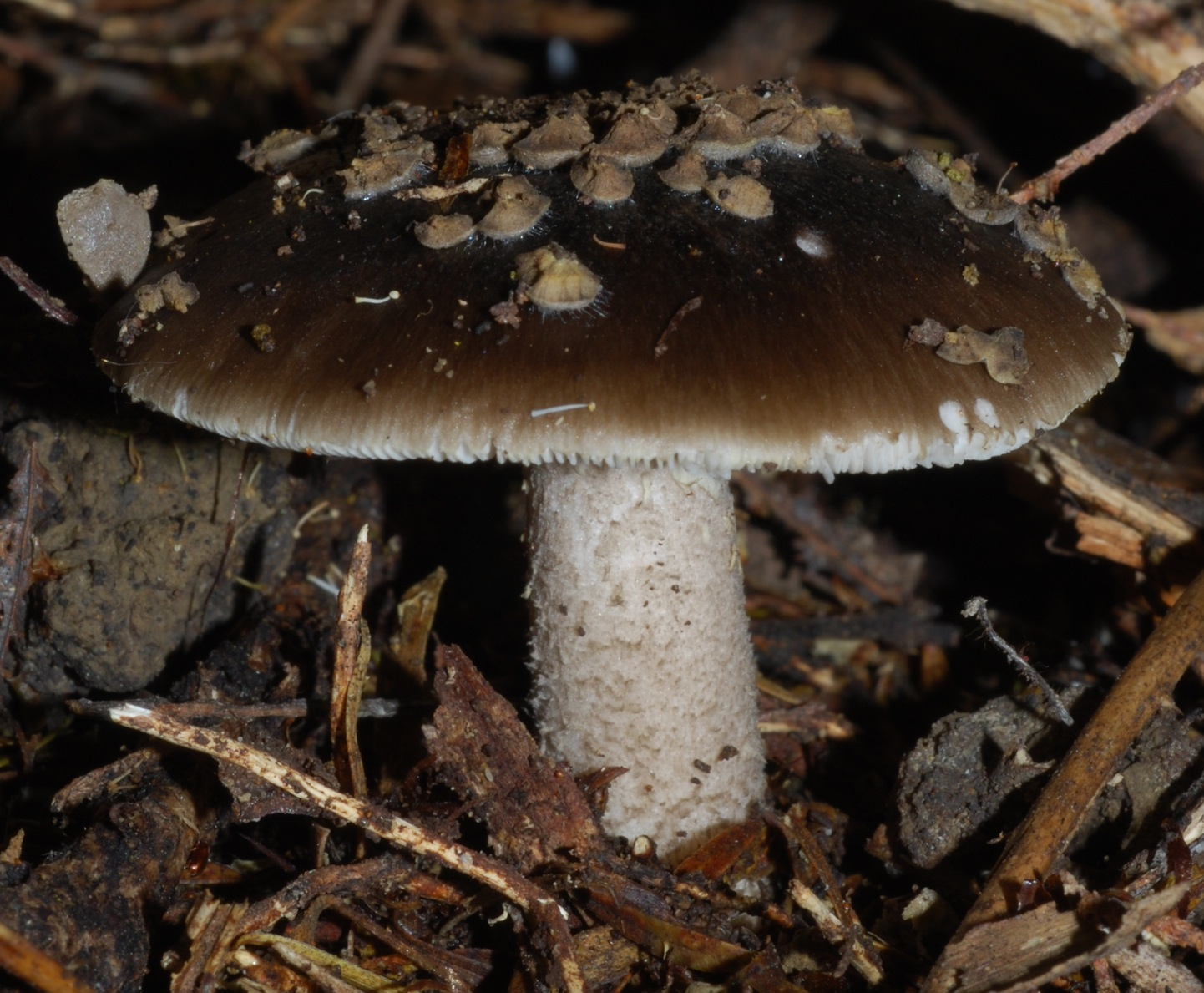 Amanita nothofagi G. Stev. Location: Auckland, New Zealand Observation Notes: A very common Amanita species found in association with Leptospermum scoparium and Kunzea ericioides, belonging in section Validae. For more information about this, see the observation page at Mushroom Observer.